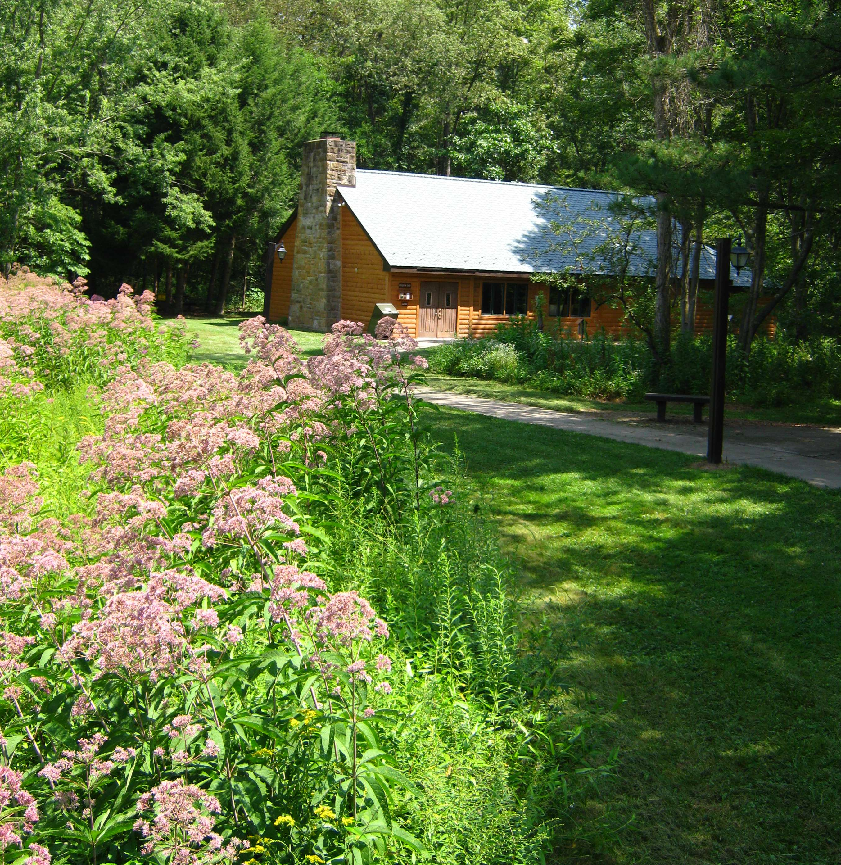 Photo of Wildflower Reserve Interpretive Center at Wildflower Reserve of Raccoon Creek State Park (August 2010)